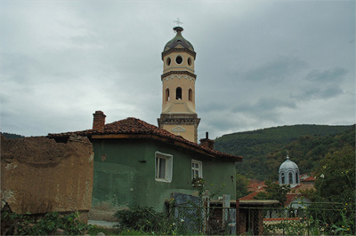 Bulgarian town of Bratsigovo